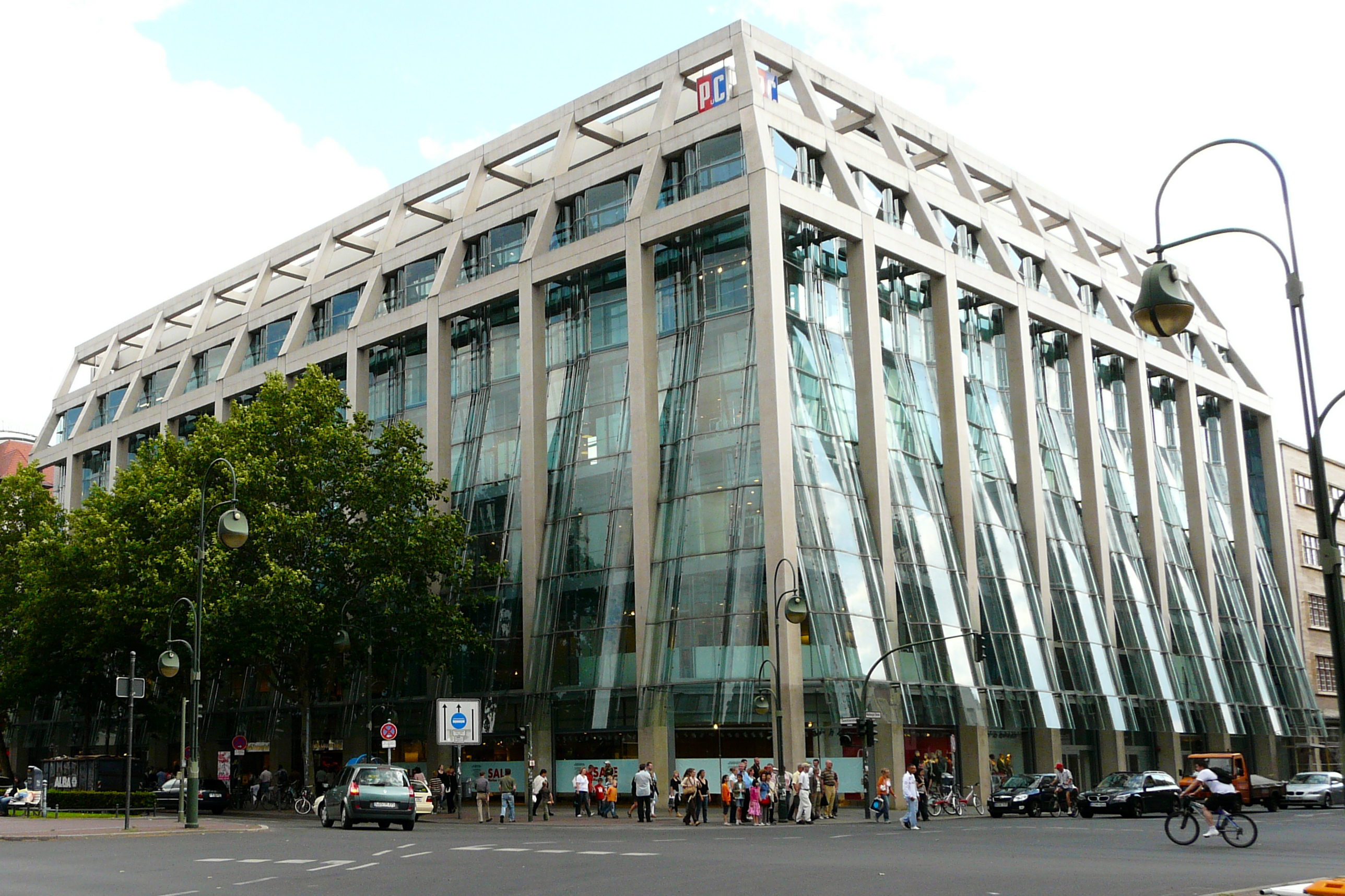 The Peek&Cloppenburg flag ship store in Berlin, Tauentzienstraße